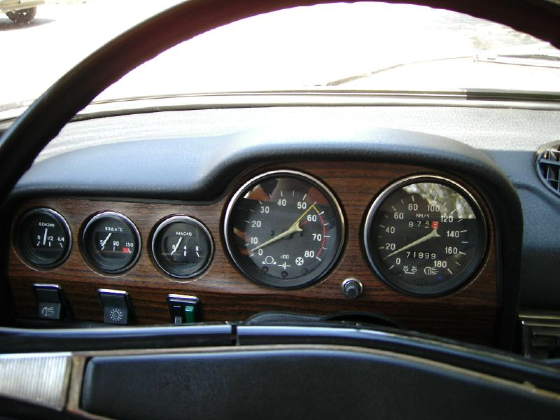 The interior of a original russian car classic